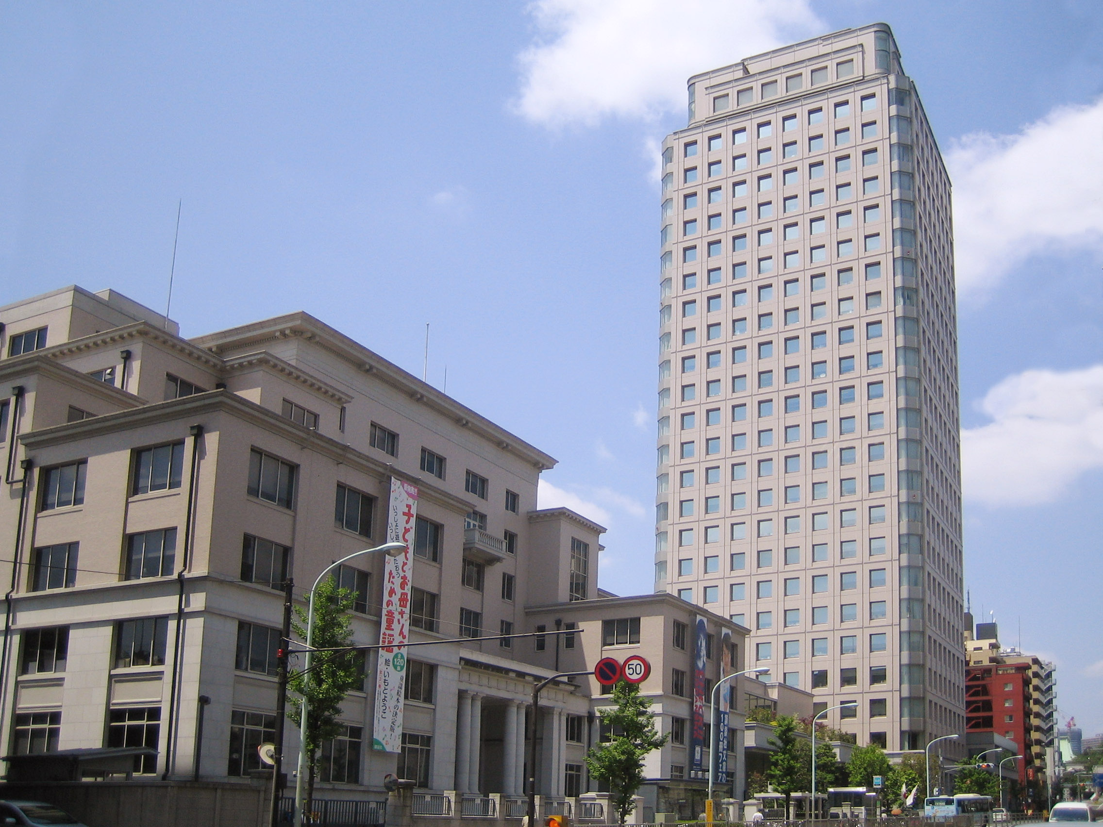 Kodansha (講談社) headquarters, in Bunkyo, Tokyo, Japan